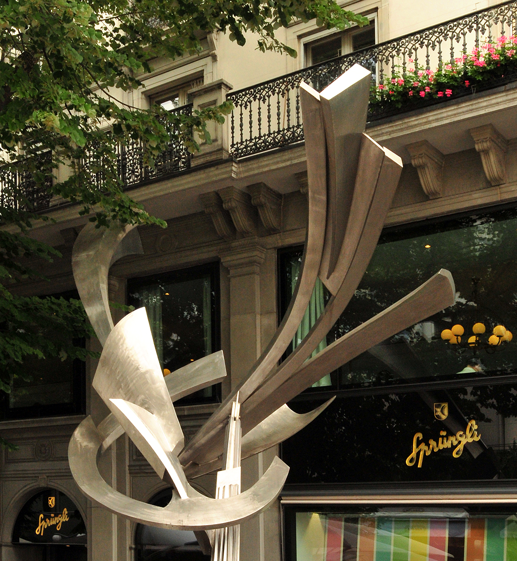 View from the Bahnhofstraße to the sculpture "Großer Aufschwung" by the Swiss sculptor Silvio Mattioli in front of the Confiserie Sprüngli near the Paradeplatz in Zürich, Switzerland.